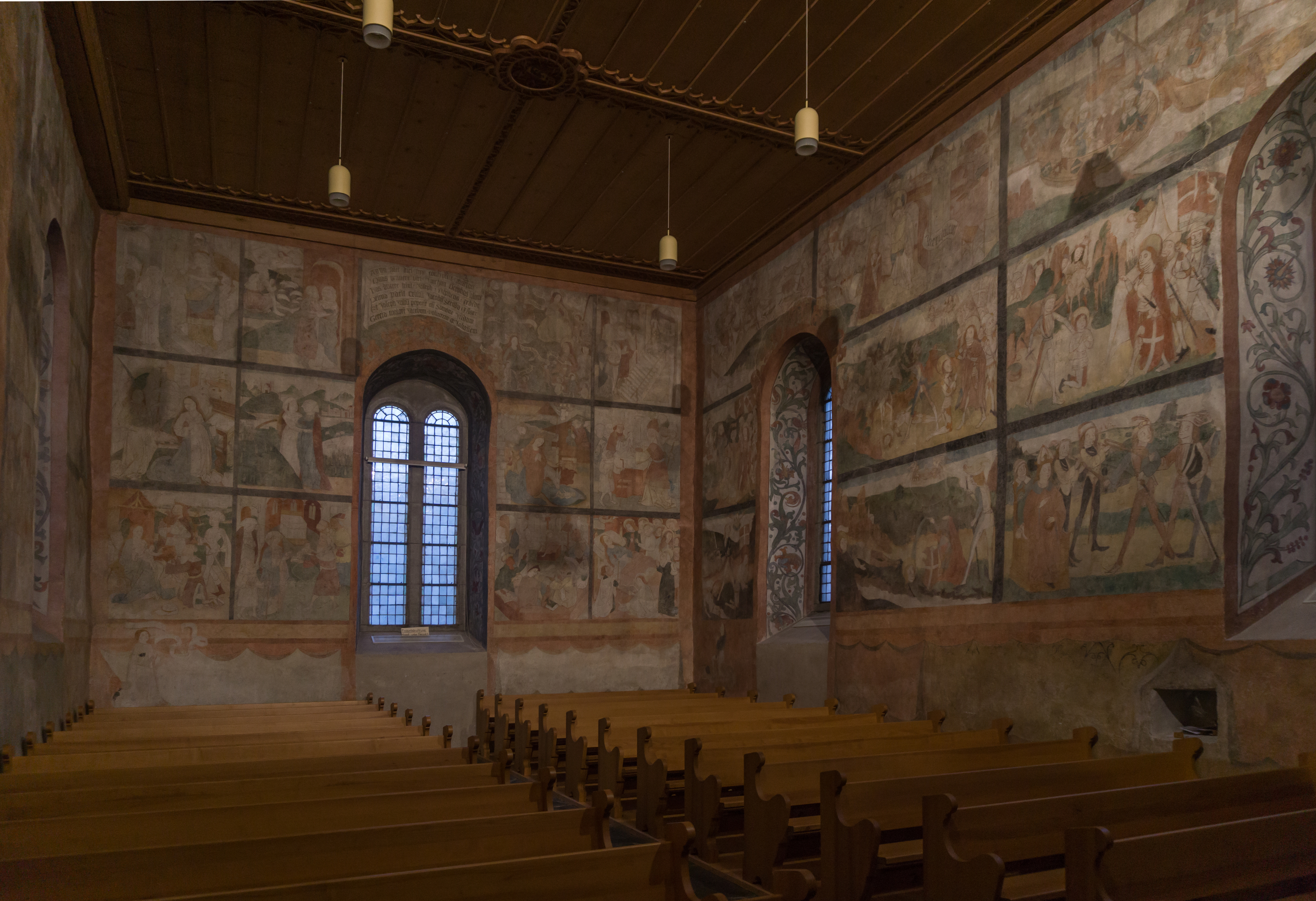 Kirche Saanen / Saanen Church - 15th century fresco in the inner wall of the church.